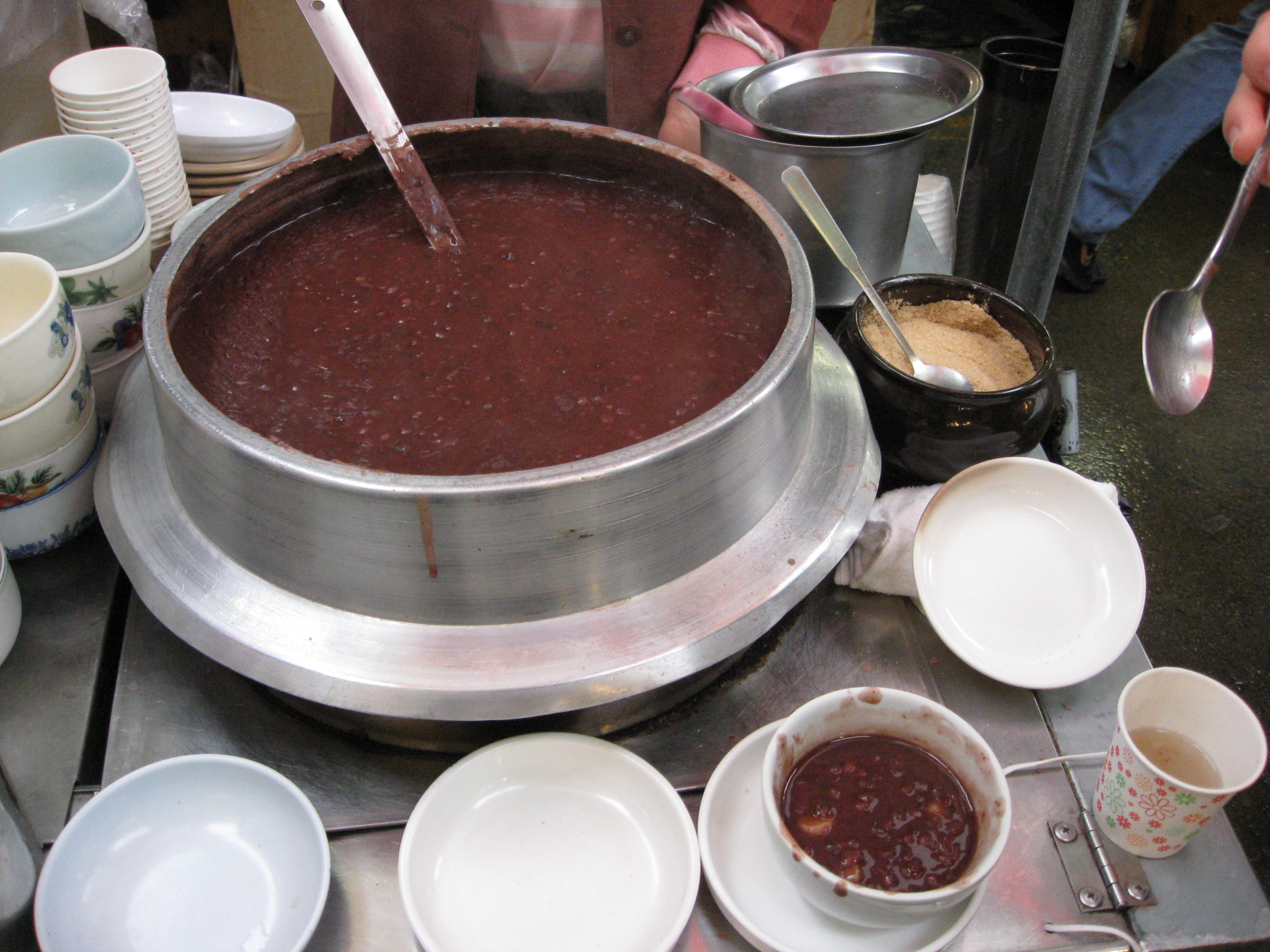 Patjuk, or Korean red bean porridge, a sweet stew made with red beans and rice balls. Washed down with a sweet rice drink.